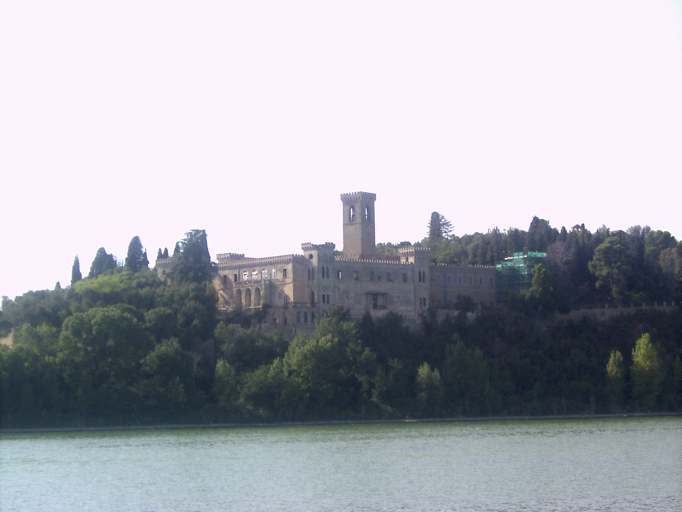 Guglielmi castle, Maggiore isle (Trasimeno's Lake), with the tower on the southern shore.